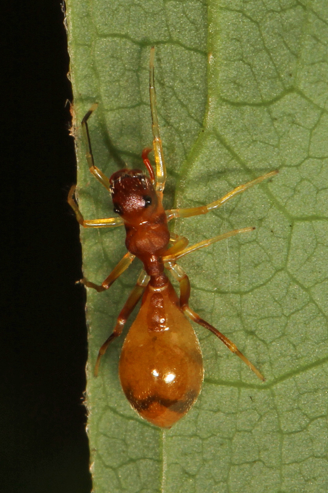 Ant-mimic Jumping Spider - Synemosina formica, Leesylvania State Park, Woodbridge, Virginia. The only way I can tell the spider from the ant is by counting legs - this has 8 legs, so it must be a spider. Even the spider behavior mimics ant behavior.